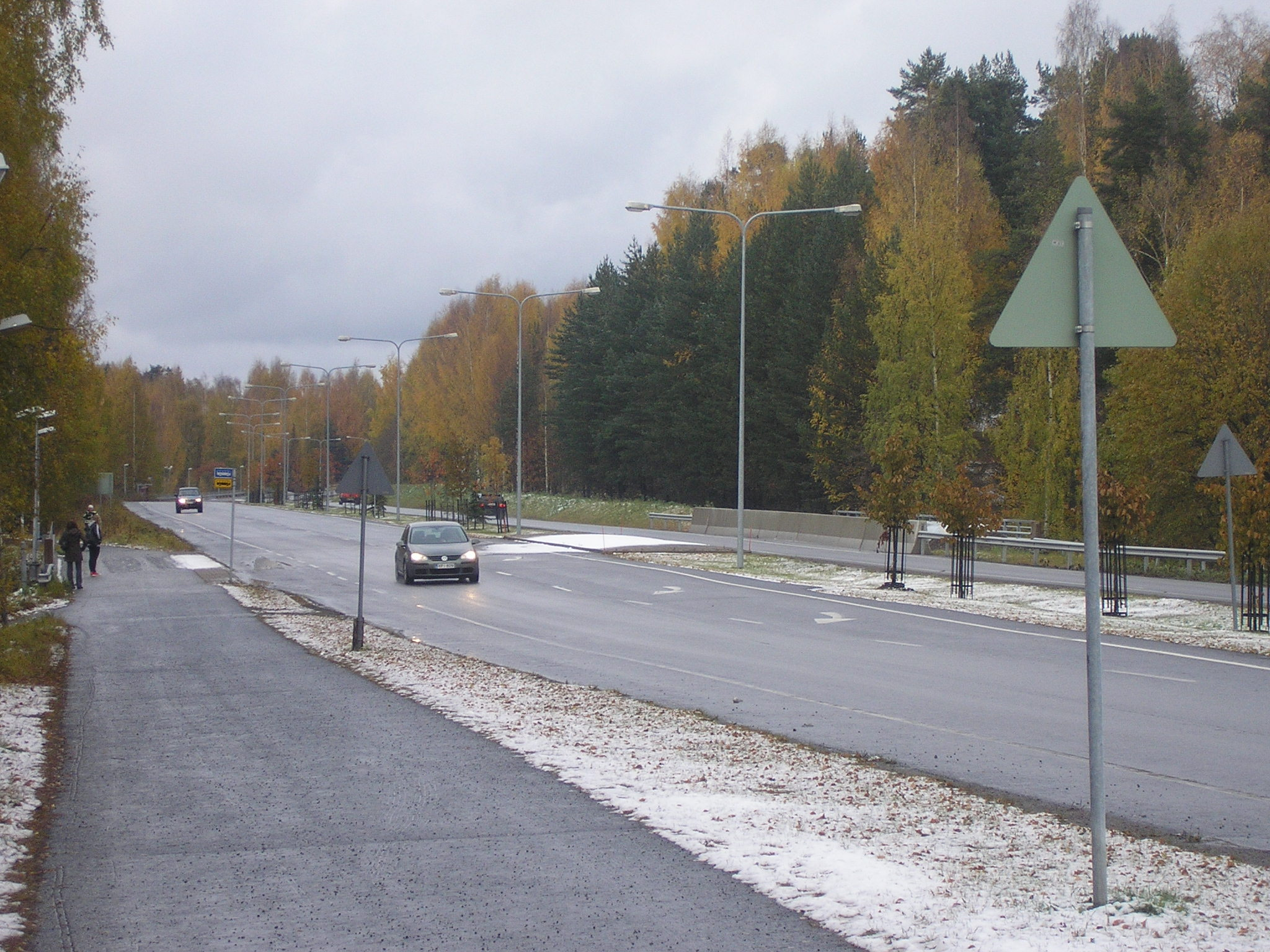 Länsi-Päijänteentie or connecting road 6018 in Jyväskylä, Finland